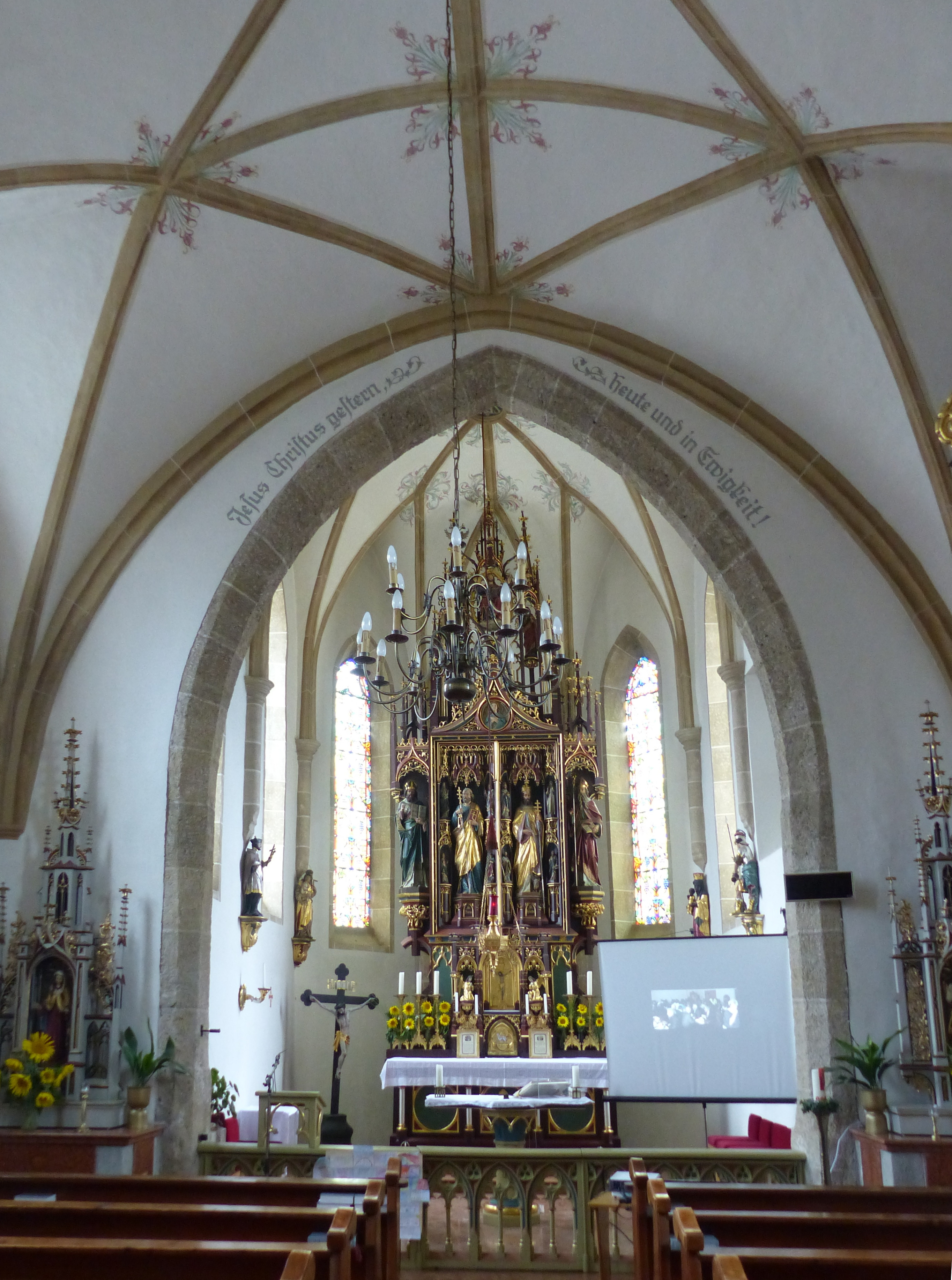 Moosbach ( Upper Austria ). Saint Peter parish church ( 16th century ) - Interior.